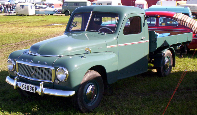 Volvo PV445 Pickup